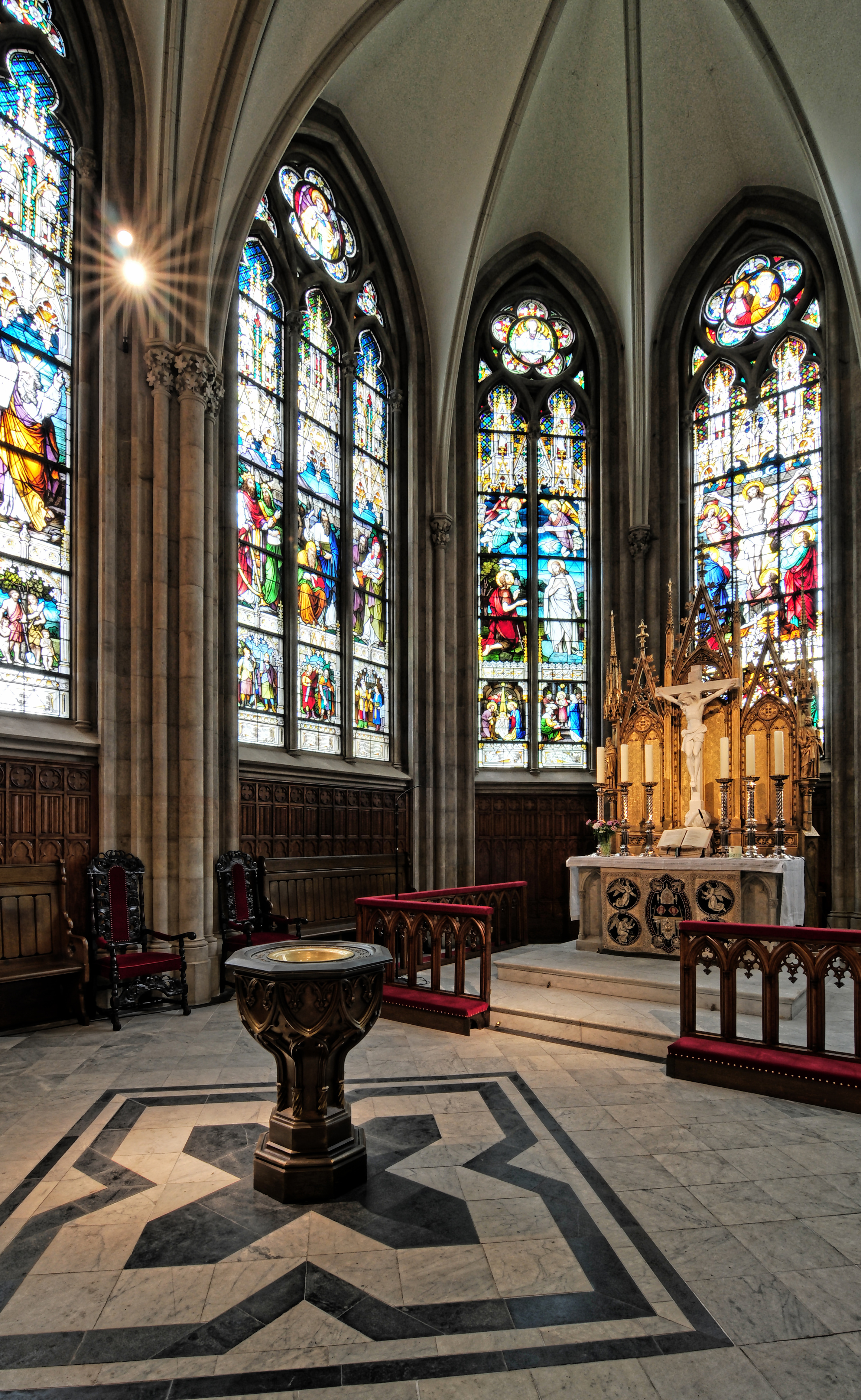 Schwerin Castle Church, baptismal font, altar and stained glass windows in the choir Das Nutzungsrecht dieses Fotos liegt bei der Schloßkirchengemeinde in Schwerin. Falls eine Nachnutzung ohne die Bedingung der freien Lizenz gewünscht wird, wenden sie sich bitte an den Inhaber der Nutzungsrechte: Ev.-luth. Schloßkirchengemeinde Schwerin • Körperschaft des öffentlichen Rechts Platz der Jugend 25 19 053 Schwerin Tel.: + 49 (0) 385 - 56 25 67